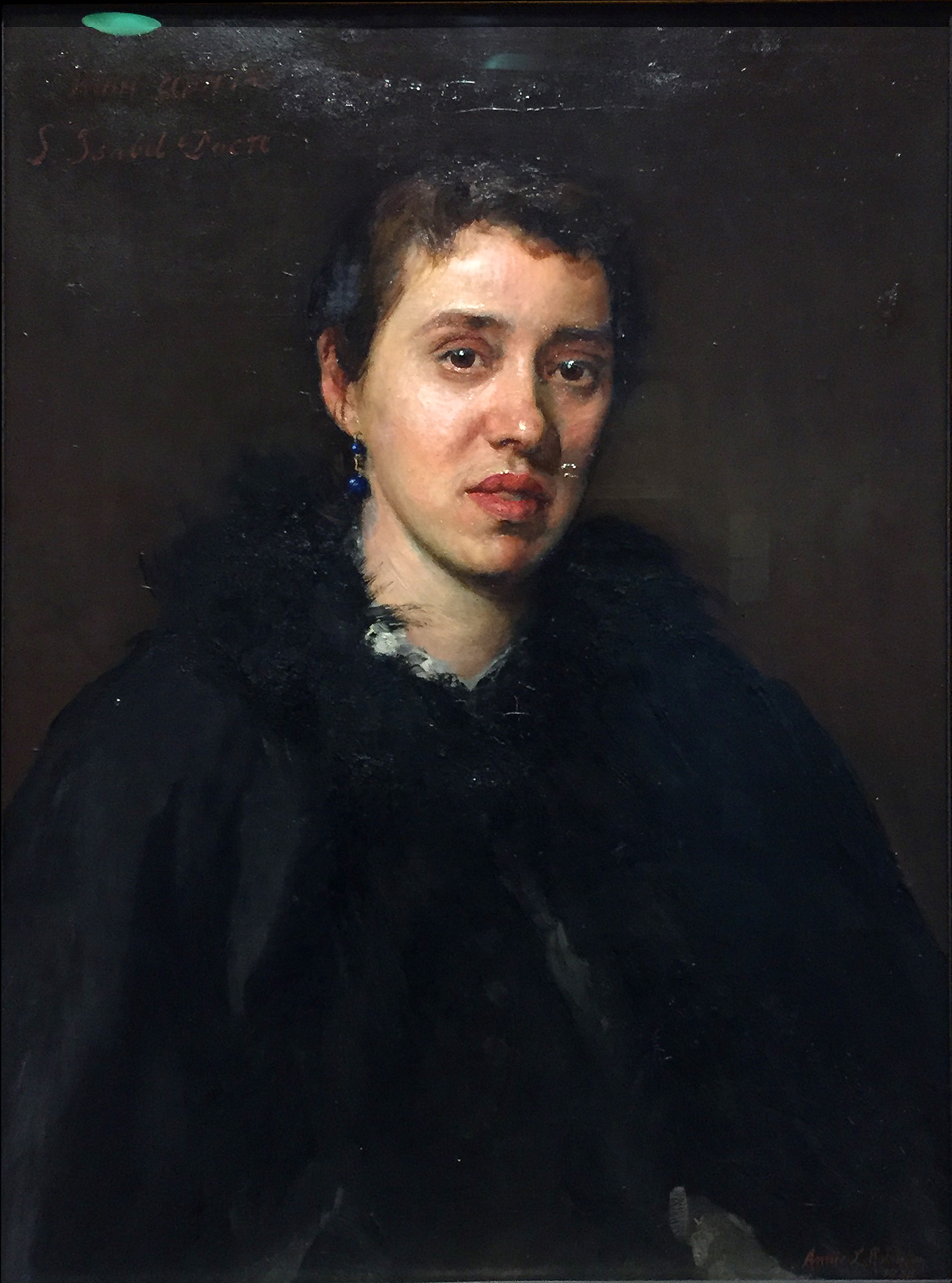 Annie Swynnerton - portrait of Susan Isabel Dacre ("A mon Amie)"